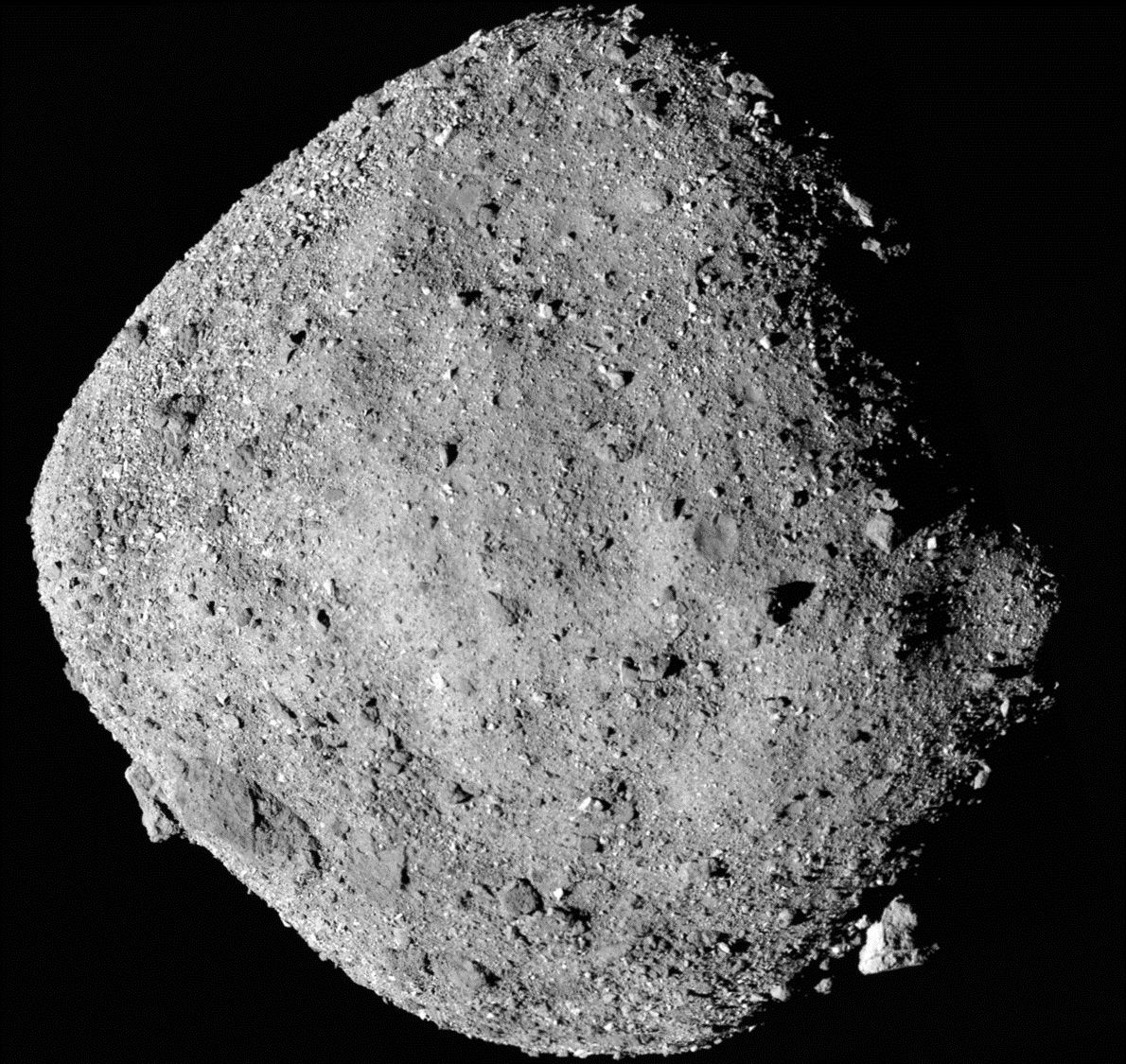 This mosaic image of asteroid Bennu is composed of 12 PolyCam images collected on Dec. 2 by the OSIRIS-REx spacecraft from a range of 15 miles (24 km). The image was obtained at a 50° phase angle between the spacecraft, asteroid and the Sun, and in it, Bennu spans approximately 1,500 pixels in the camera’s field of view.